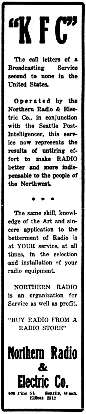 KFC was the first authorized broadcasting station in the state of Washington. It was licensed to the Northern Radio & Electric Company of Seattle from December 8, 1921 to January 23, 1923, and was operated from the Seattle Post-Intelligencer newspaper building.